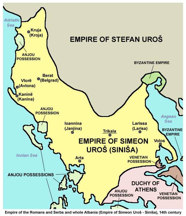 Empire of the Romans (Greeks) and Serbs and whole Albania (Empire of Simeon Uroš - Siniša), 14th century.